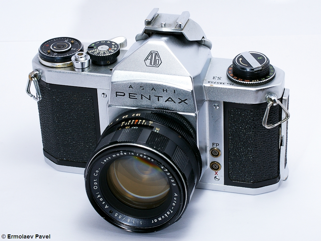 SLR-camera Asahi Pentax S3